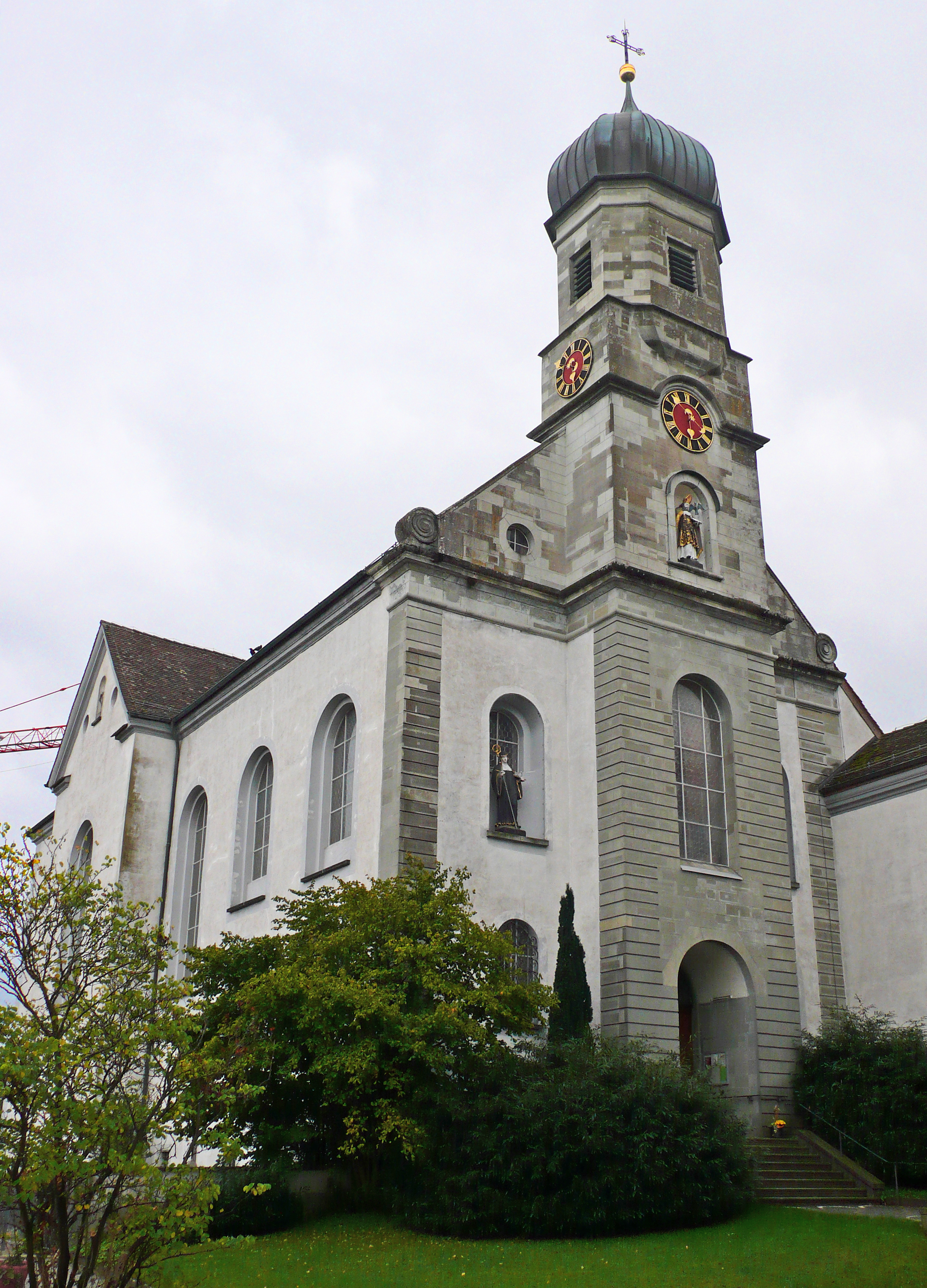 Catholic church (belonging to the former monastery precinct) of Münsterlingen, Switzerland.